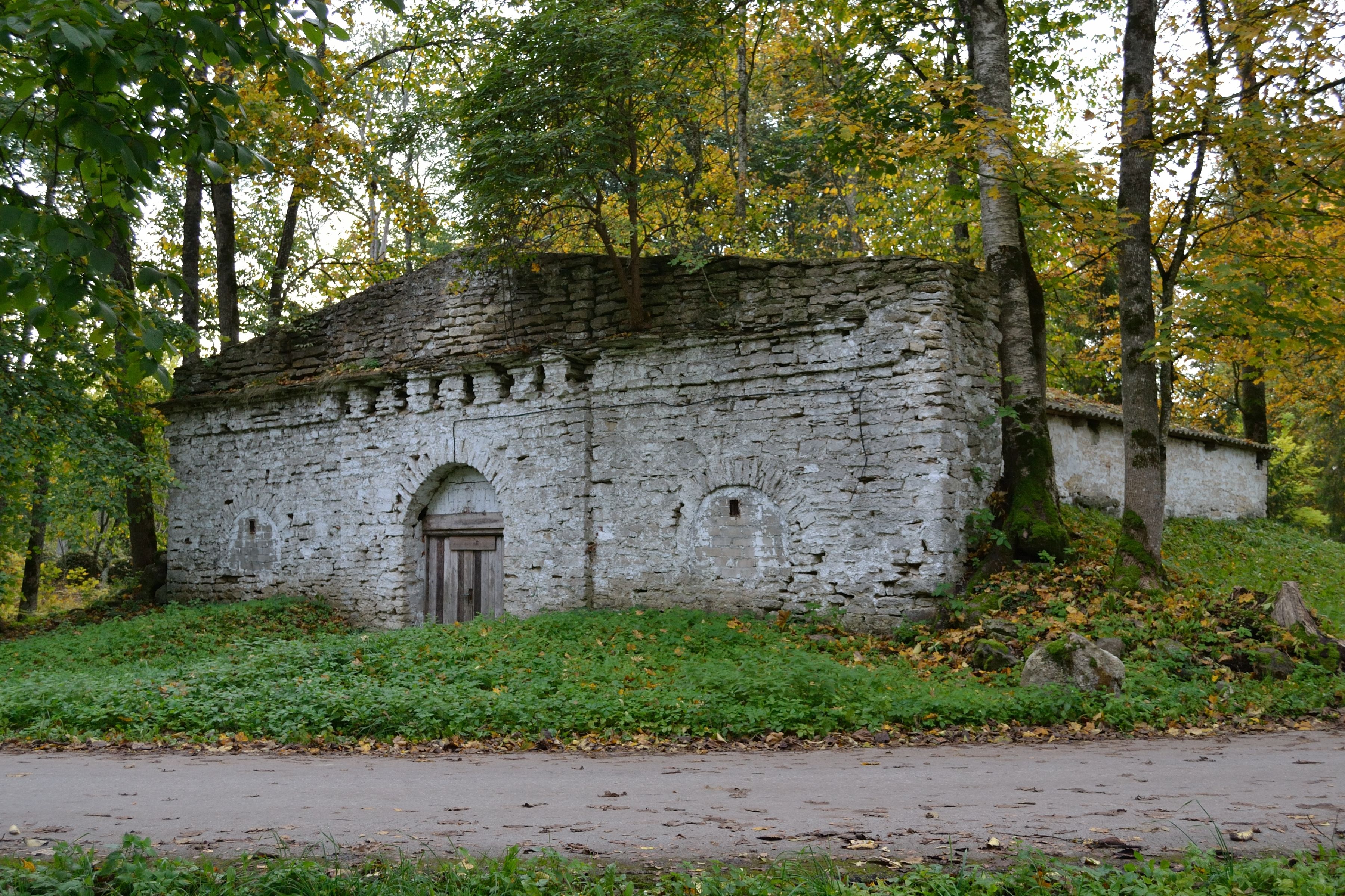 Kehtna manor ice-cellar